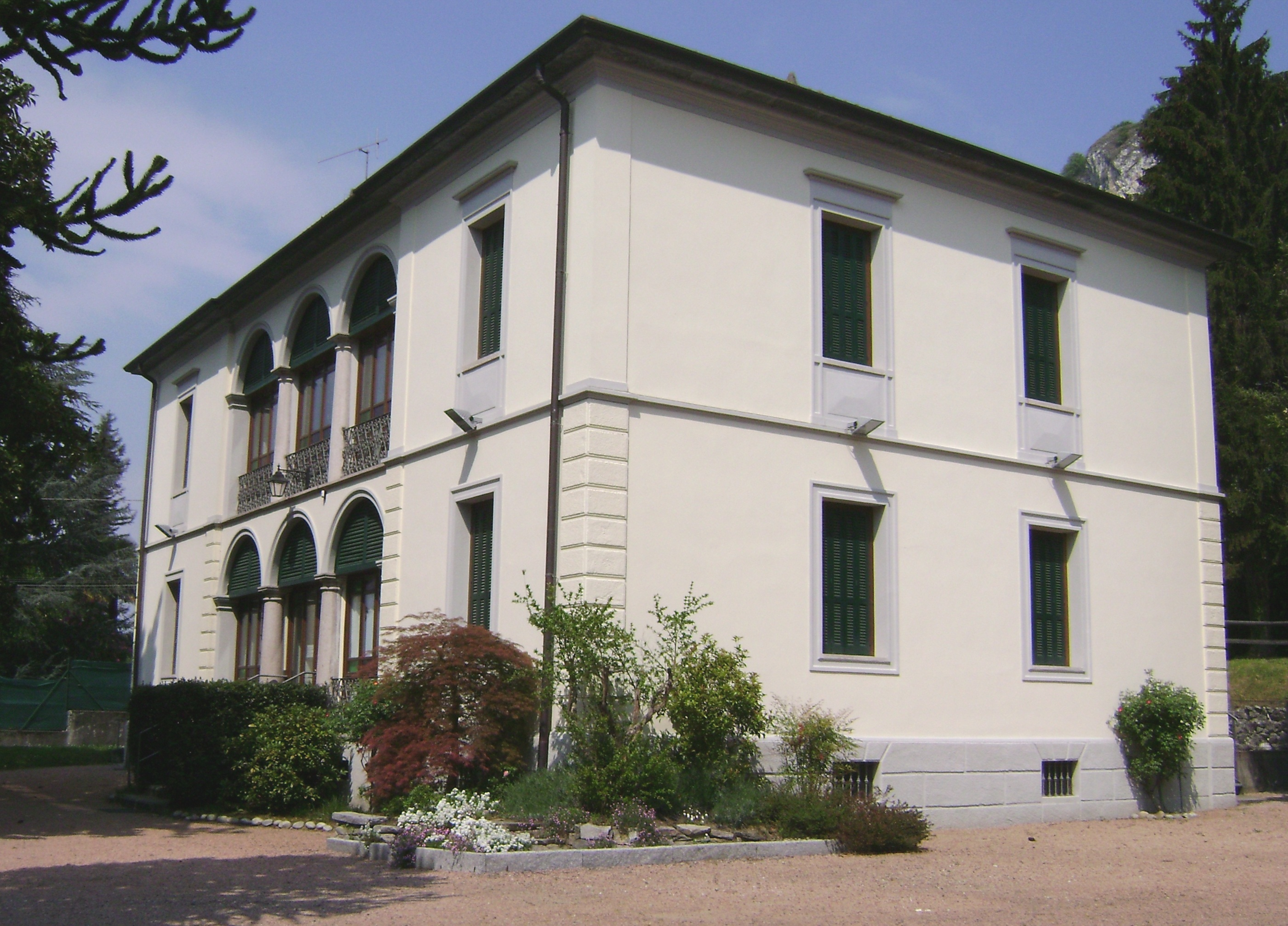 Villa Fantoni